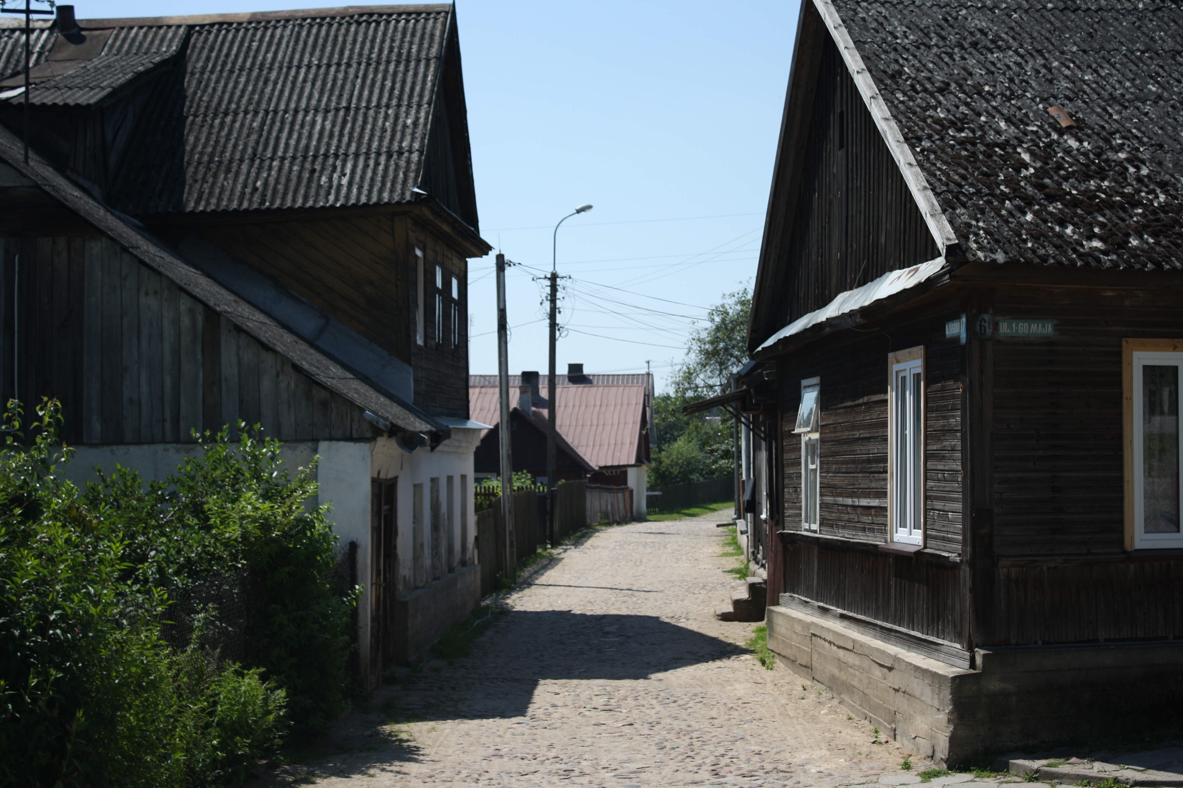 Krynki (Podlasie Voivideship). Old buildings